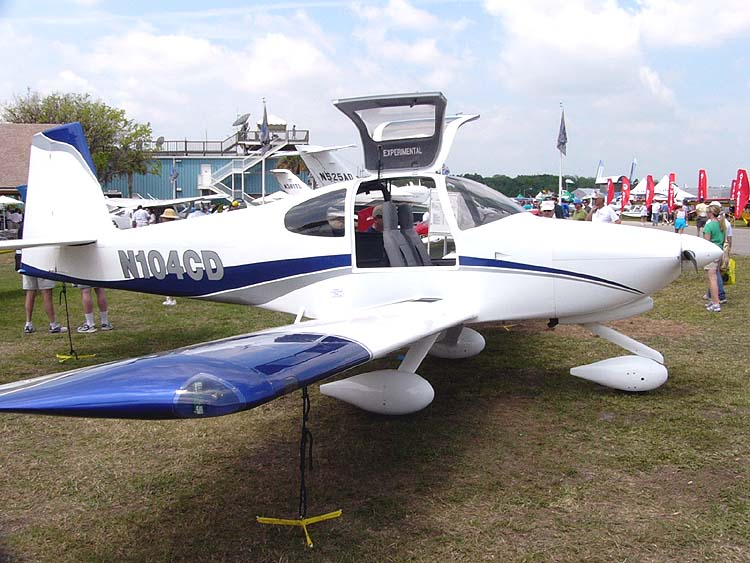 I took this photo of a Vans RV-10 (N104CD) at Sun 'n Fun 2006